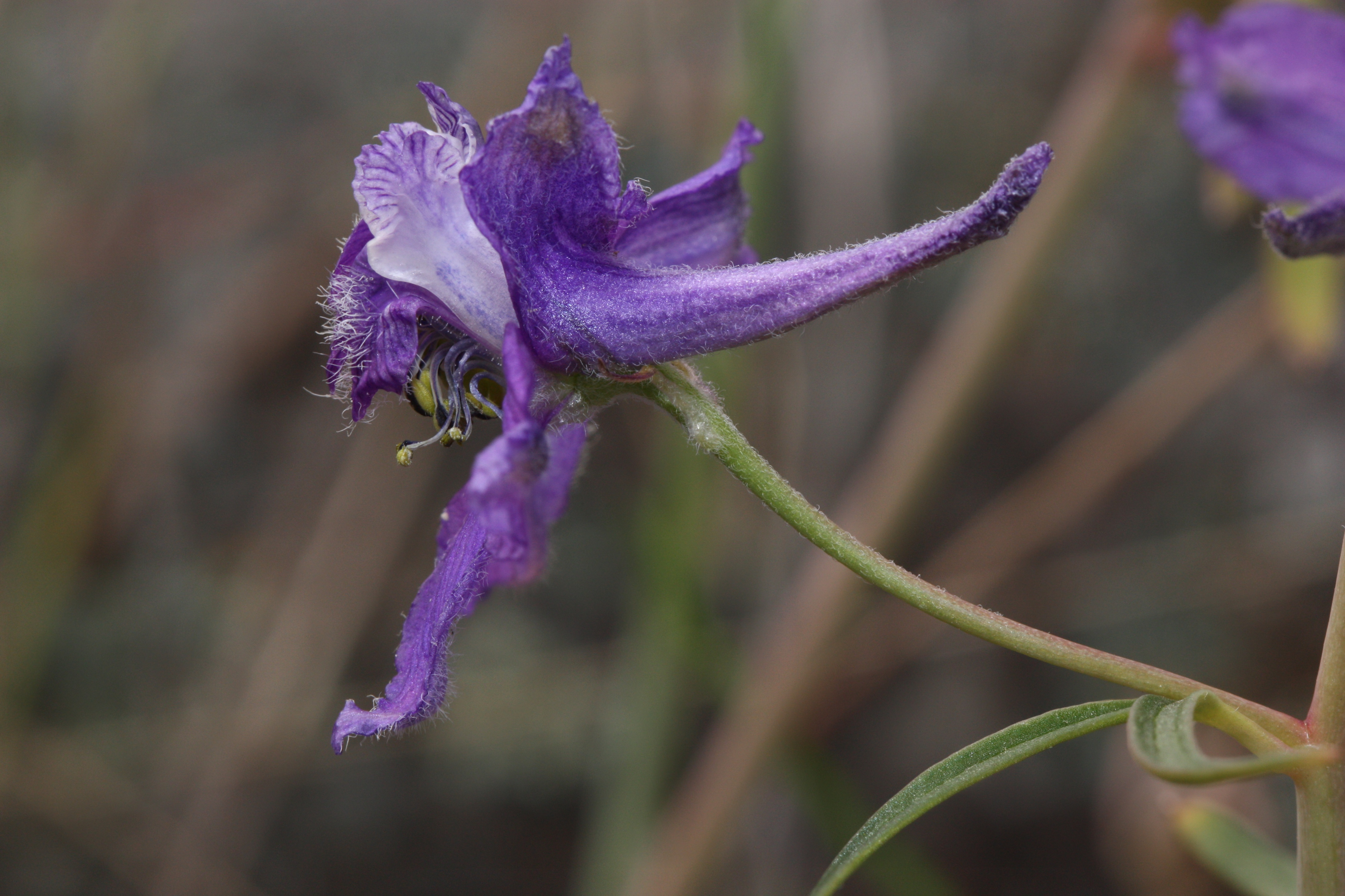 Two-lobe Larkspur; focus stack from other versions (Helicon Focus)